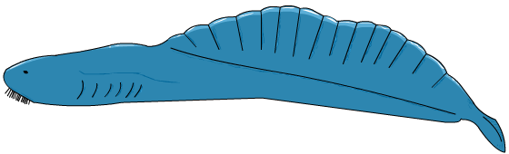 This is an illustration of the ancient chordate, Haikouella. It has been done entirely in Flash.